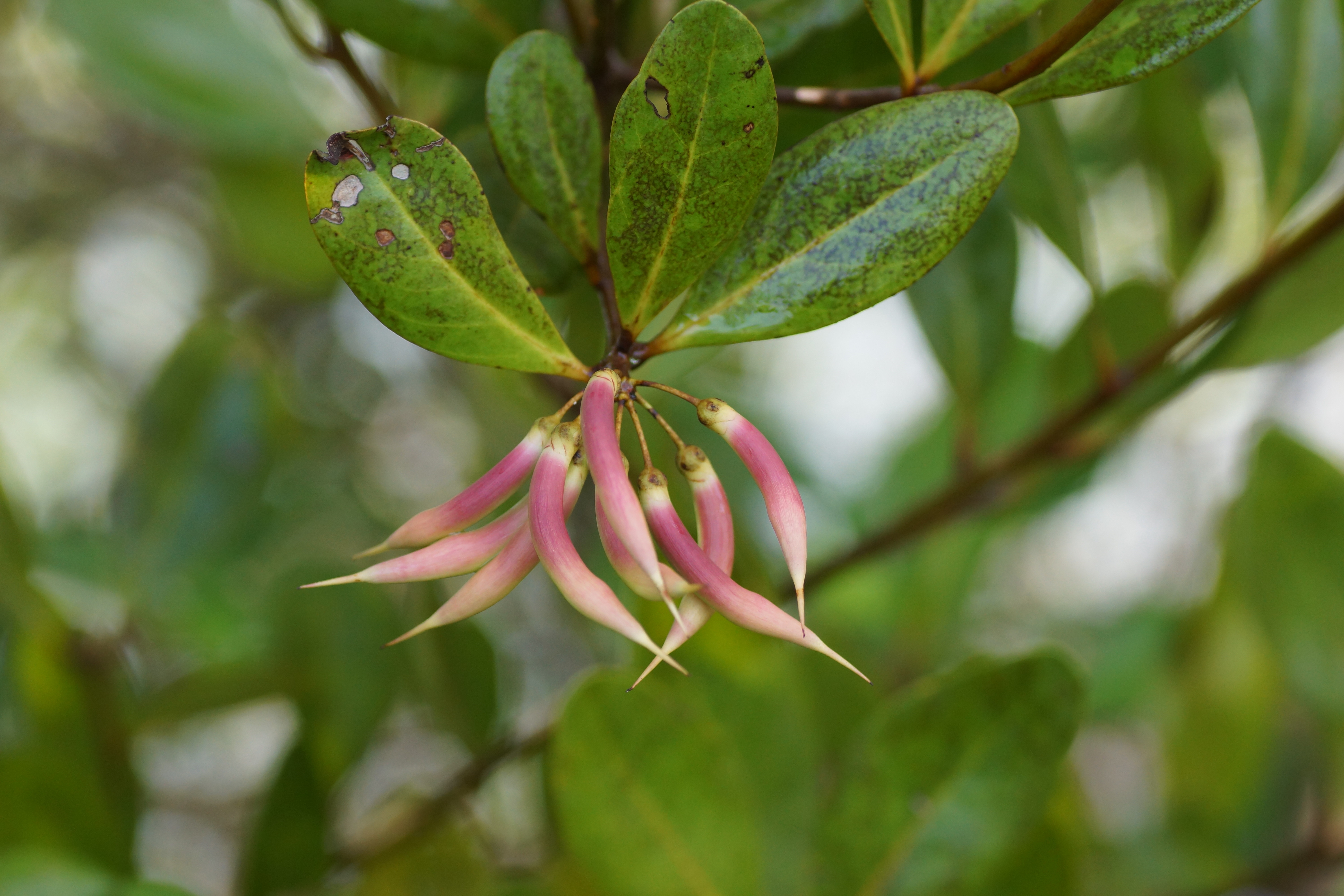 Aegiceras corniculatum